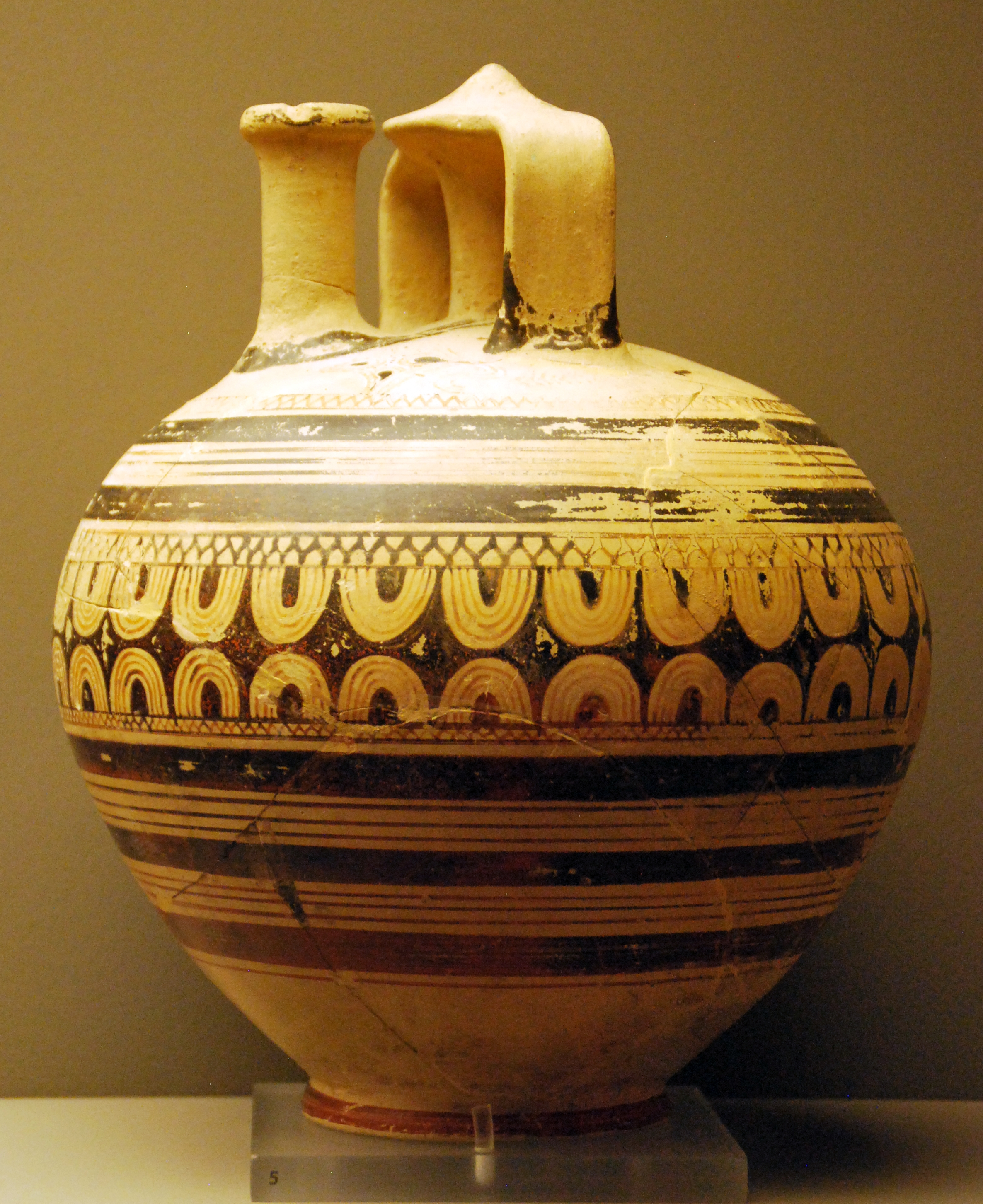 Mycenaean miniature stirrup jar from Skyros; 11th Century B.C. (Submycenaean); N.P Goulandris Coll. 393 in the Museum of Cycladic Art in Athens.